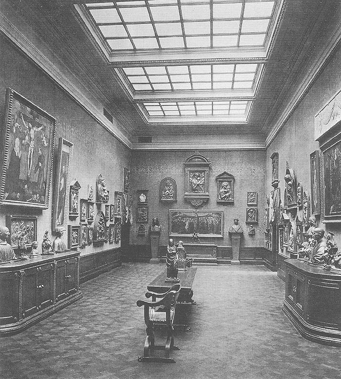 15th century Italian art in a typical exhibition hall of the Kaiser-Friedrich-Museum (today's Bode-Museum)